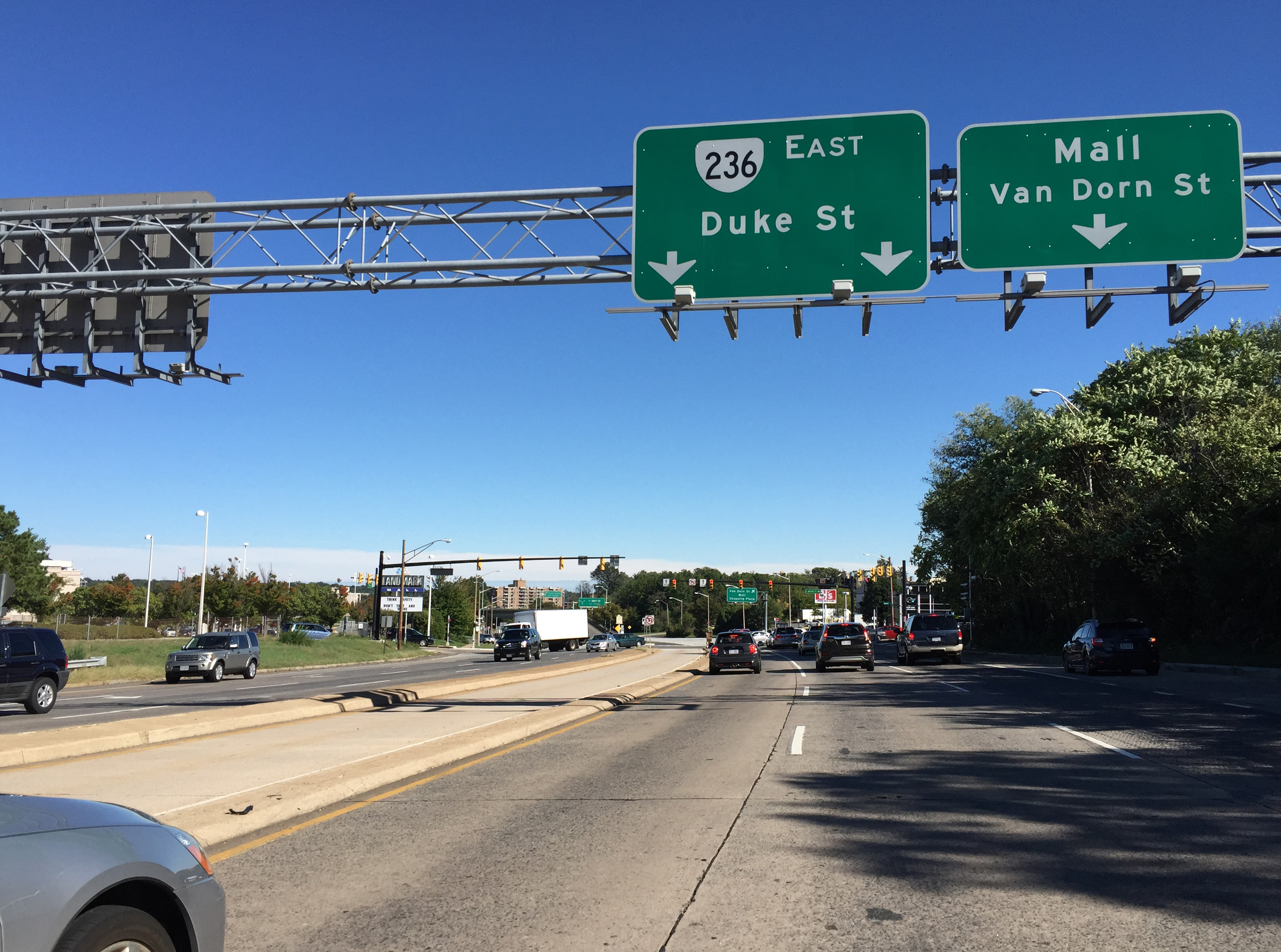 View east along Virginia State Route 236 (Duke Street) between Interstate 395 (Henry G. Shirley Memorial Highway) and Walker Street in Alexandria, Virginia